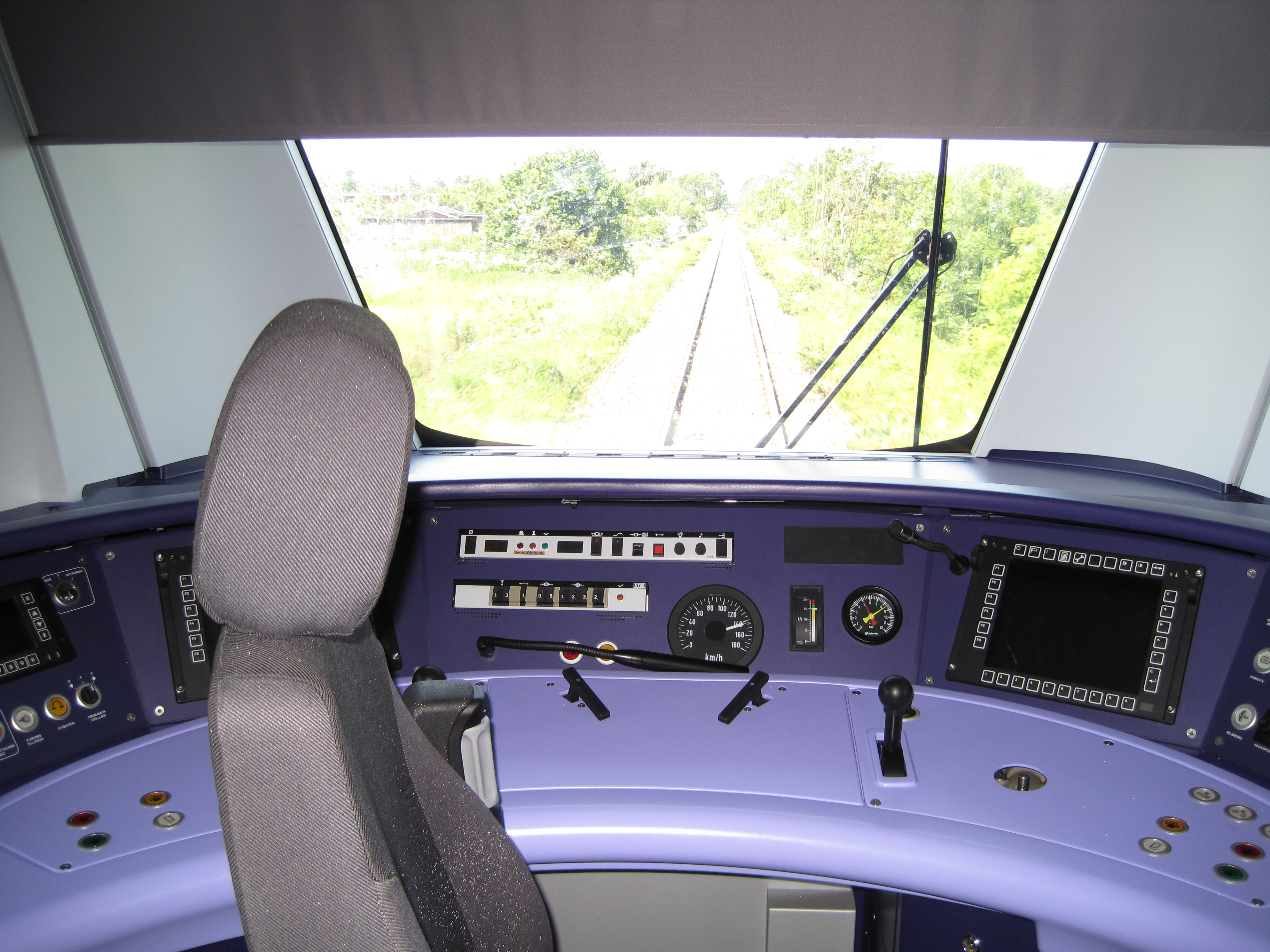 One of the driver's cabins on "Birgit Nilsson" the first of the new X61 type of "pågatåg" (the commuter trains in Skåne, Sweden).